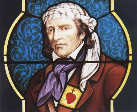 Portrain of Jean Perdriau on the stained-glass window of the Saint-Pavin church in Le-Pin-en-Mauges in France